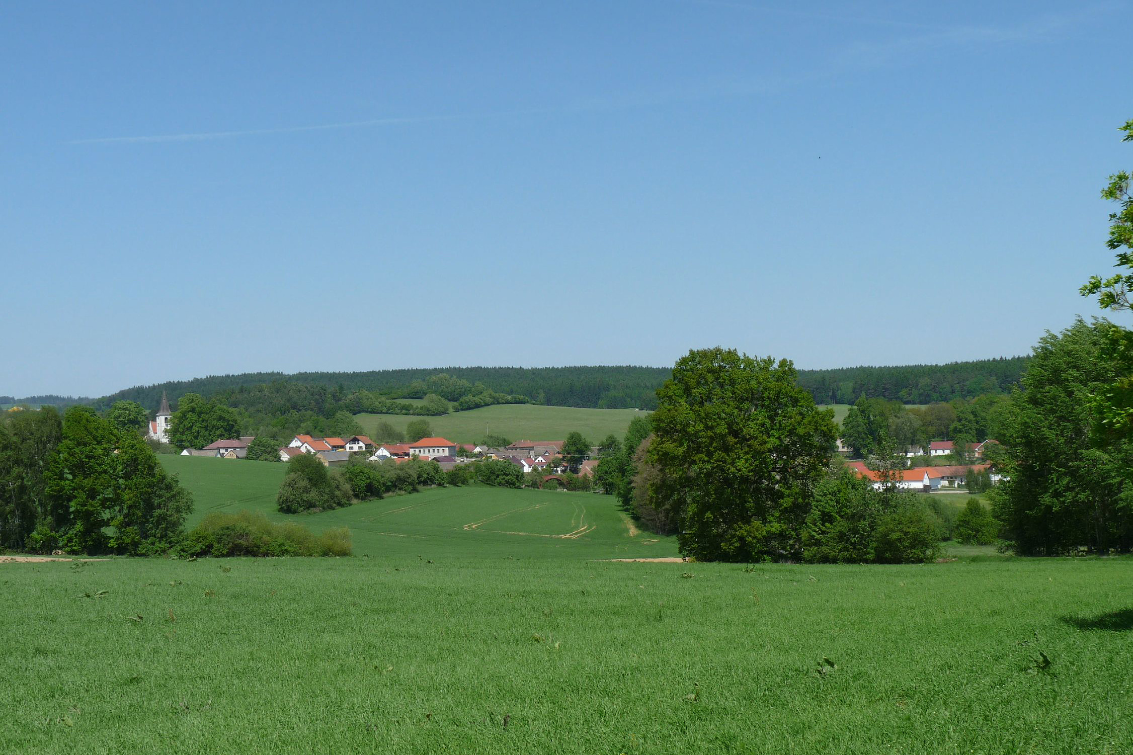 The municipality of Mlýny, Tábor District, South Bohemian Region, Czech Republic, as seen from the south.